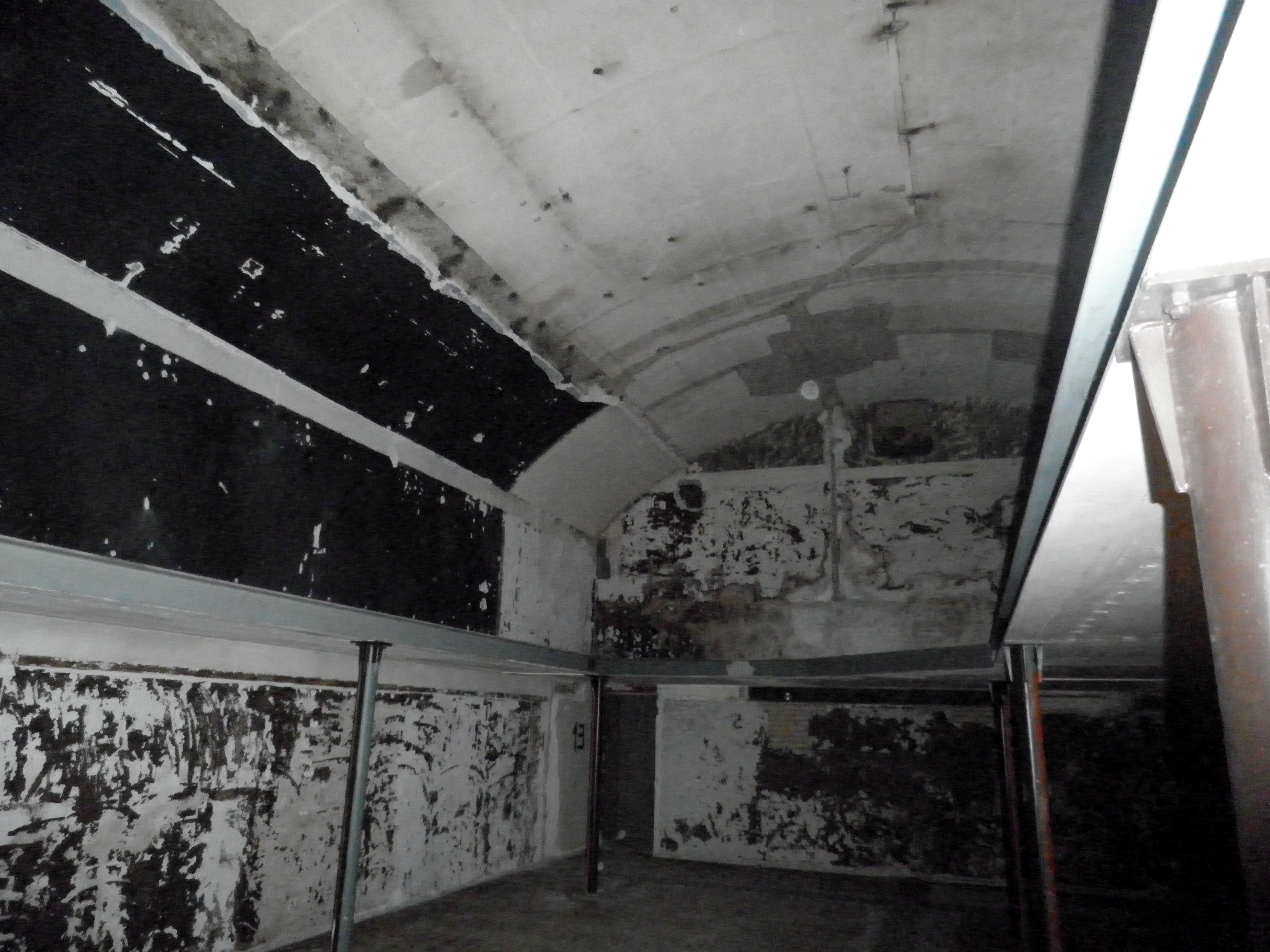 NATO headquarters Cannerberg - Bunker